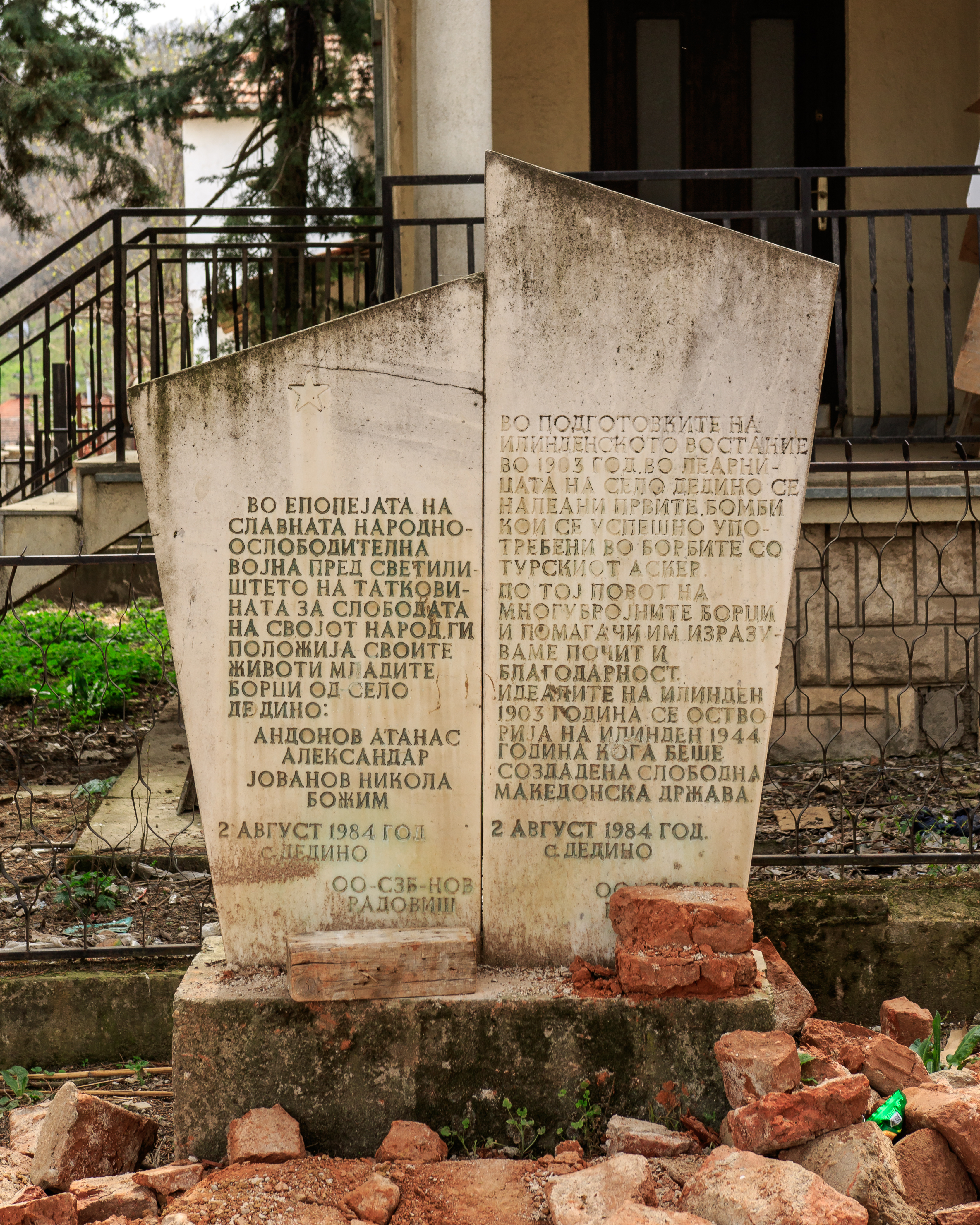 Monument in the village Dedino